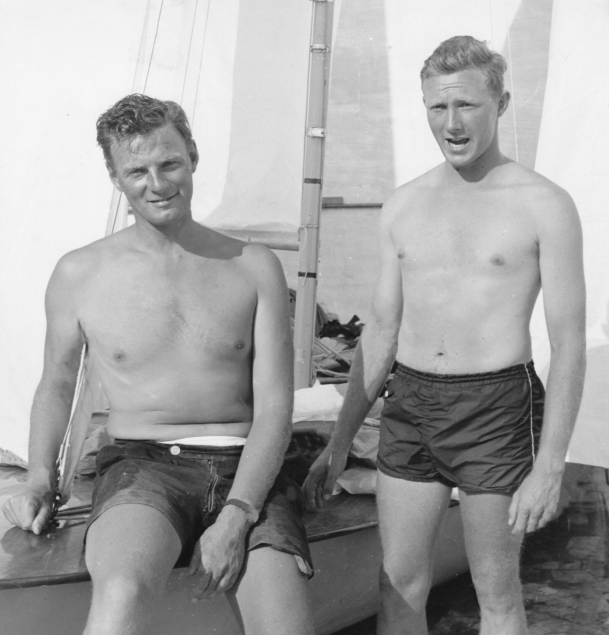 Alan David Butler and Chris Bevan, 1960